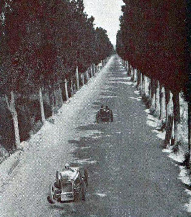 The 1928 Reale Premio Remo was at the Circuito Tre Fontane on 10 June 1928 was 30 laps x 13.050 km (8.109 mi) = 391.5 km. It had Louis Chiron in Bugatti as winner and Emilio Materassi in Talbot on 3rd place.[1]